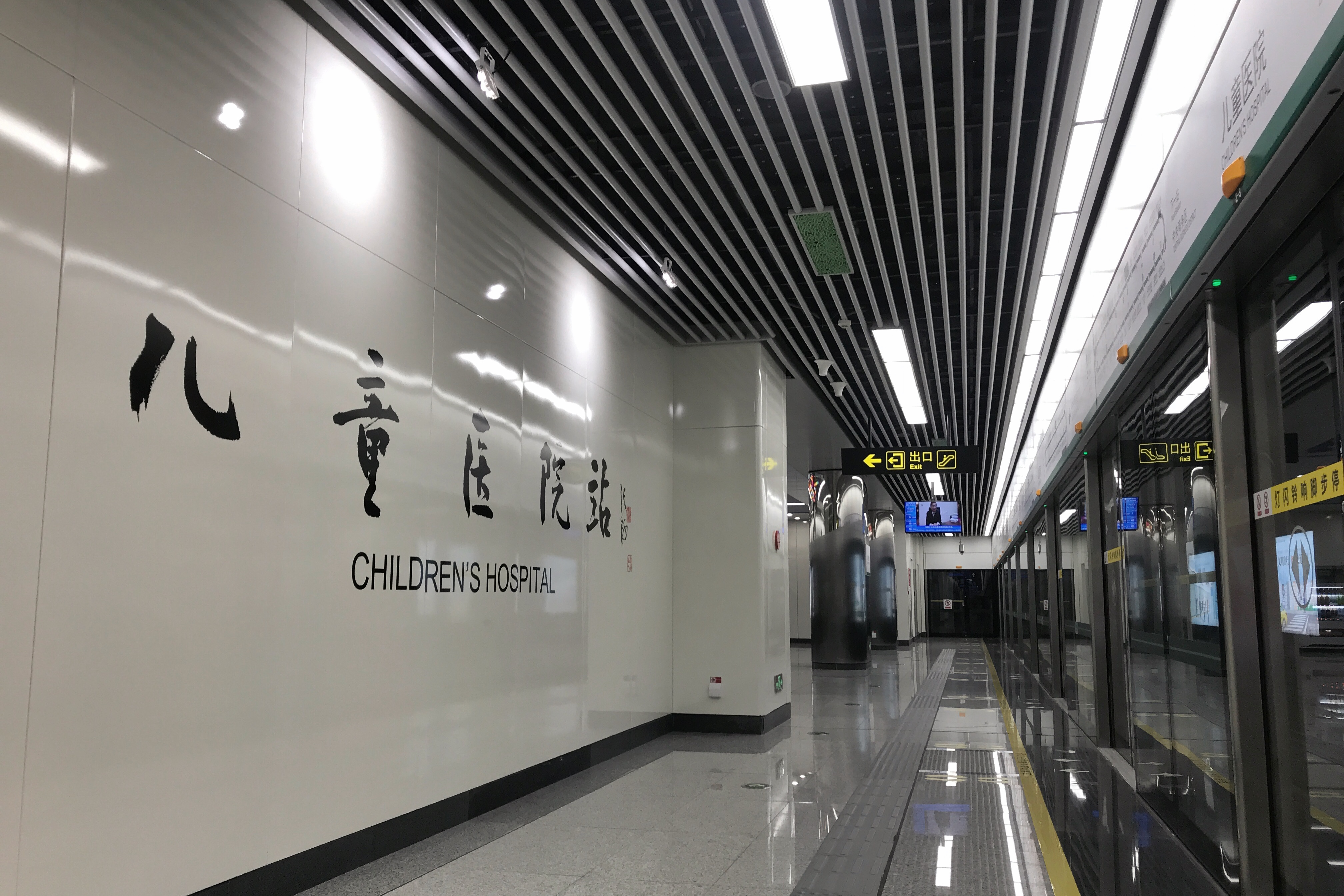 Platform of Children's Hospital Station